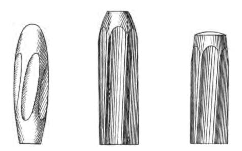 Rifle bullets designed by Joseph Whitworth